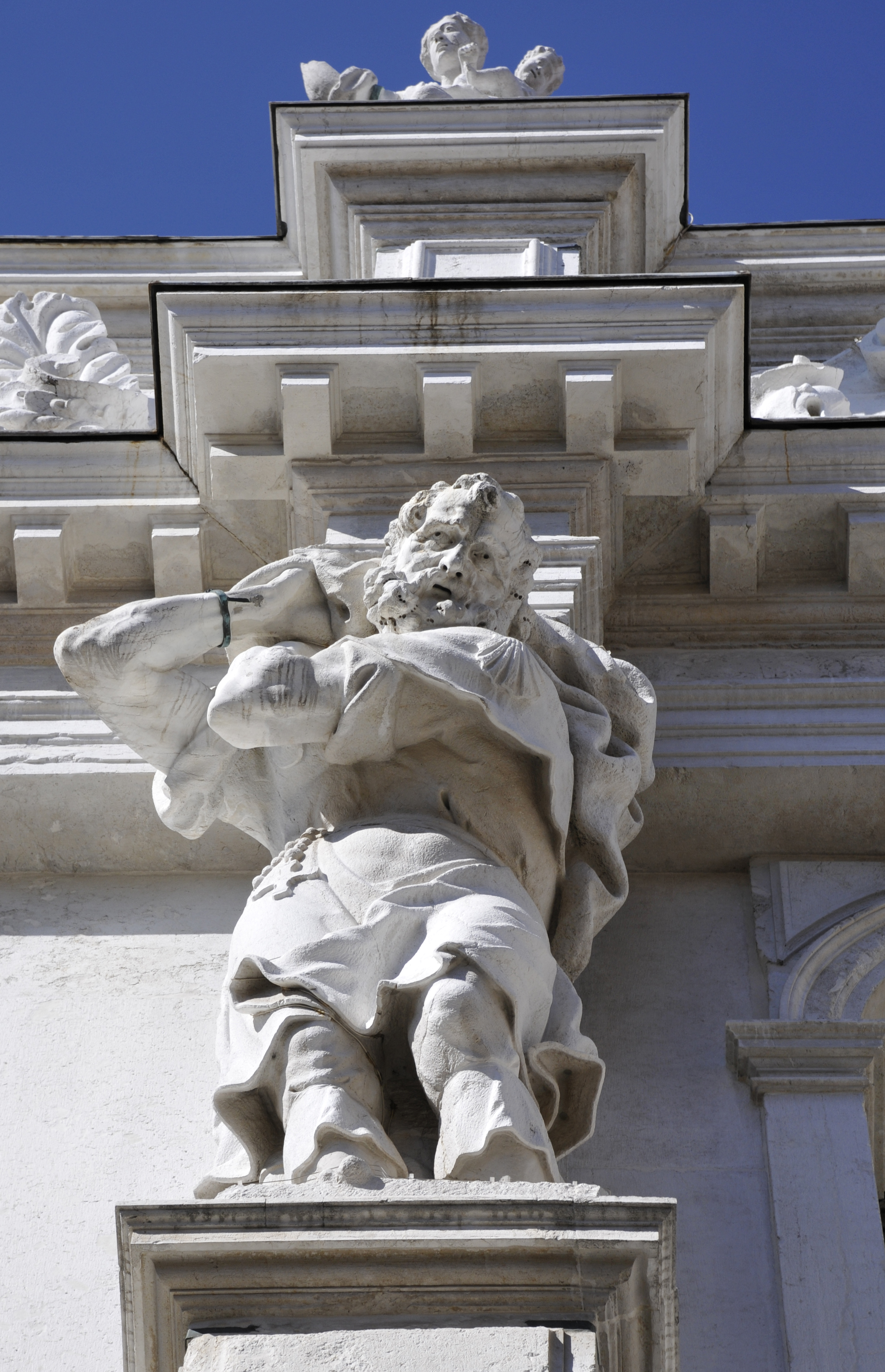 Giusto Le Court, Chiesa dell'Ospedaletto or Santa Maria dei Derelitti (Venice)